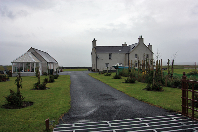 Ardnave House